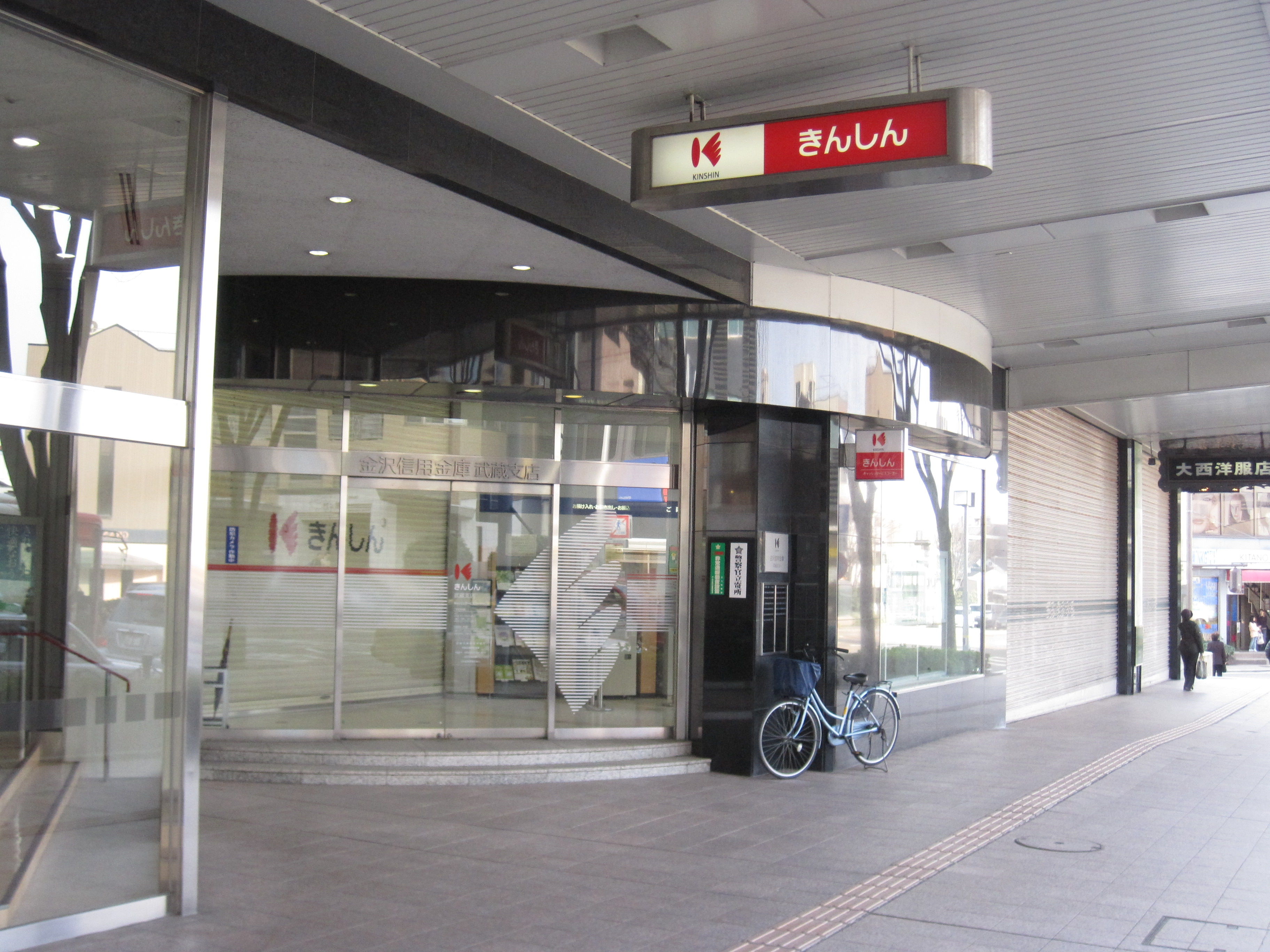 Kanazawa Shinkin Bank Musashi Branch(Kanazawa city, Ishikawa prefecture)